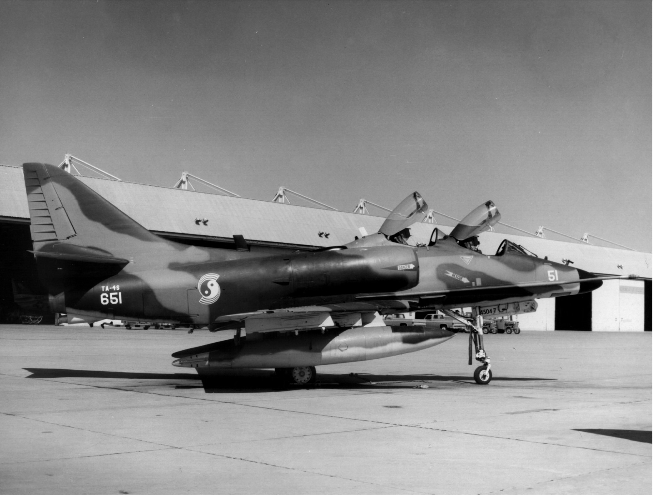 A Republic of Singapore Air Force Douglas TA-4S Skyhawk at the U.S. Navy Naval Air Station Lemoore, California (USA). The TA-4S "651" was originally delivered to the U.S. Navy as A-4B BuNo 145047.